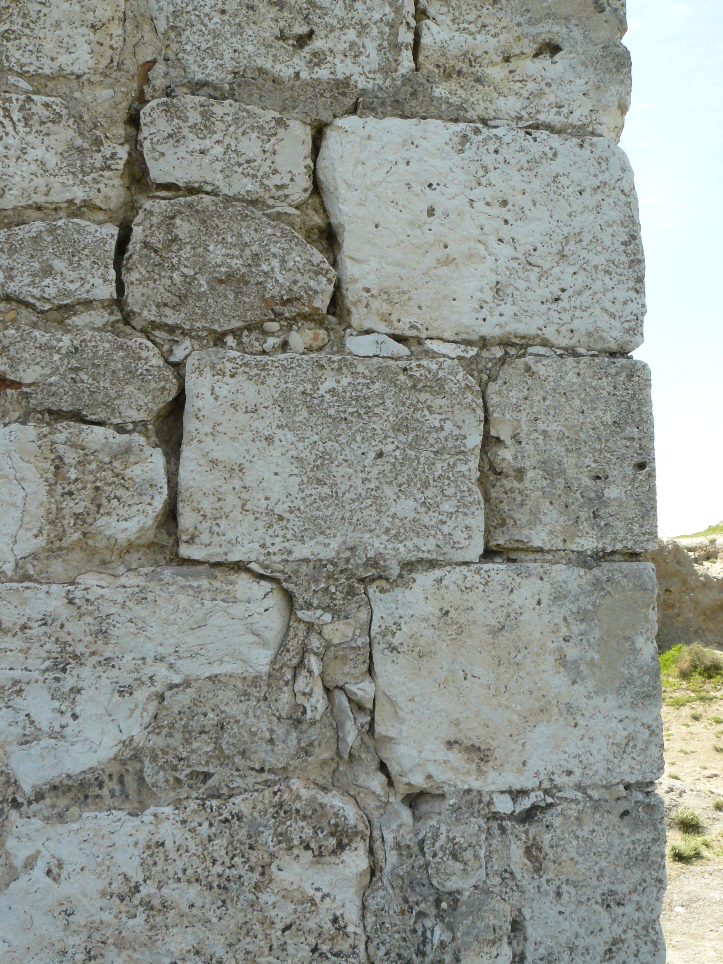 Ashlar wall, Castle of Oreja, Toledo (Spain).